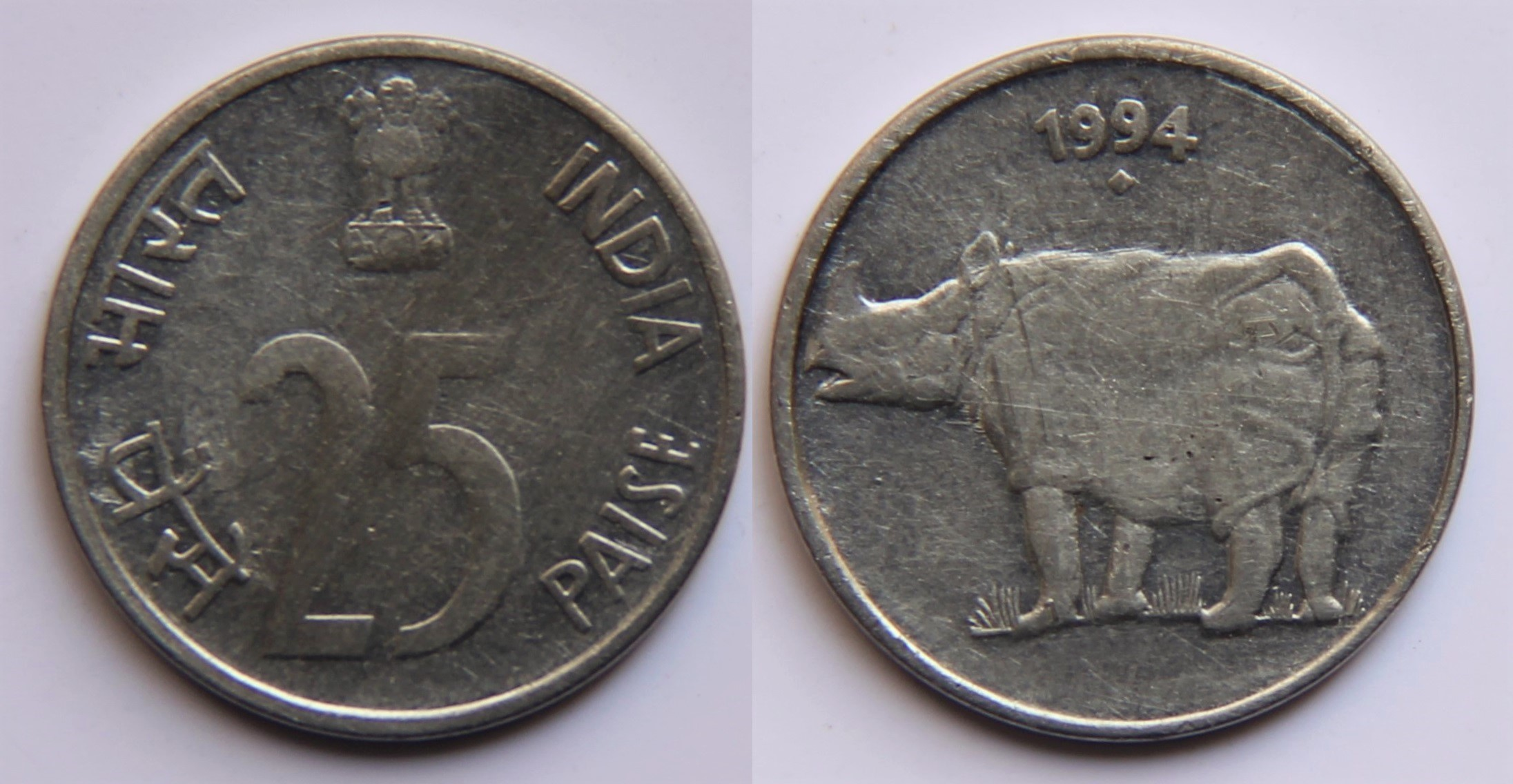 Face value: 25 Paise. Country: India. Year of minting: 1994. Metal: Stainless Steel. Shape: Round. Obverse: State Emblem of India, face-value and country name in Hindi and English. Reverse: Indian rhinoceros and year. Edge: Smooth. Weight: 2.83 g. Diameter: 19 mm. Thickness: 1.55 mm. Orientation: Medal alignment ↑↑. Total mintage: Not known. Engraver: Percy Metcalfe. Comment: Monetary status: Demonetized 30 Jun 2011. Data source: This webpage.